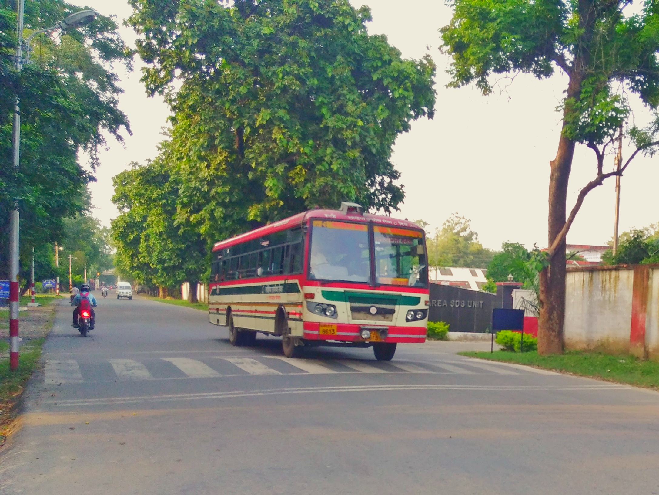 UPSRTC Bus on lal phatak road in Bareilly Cantt